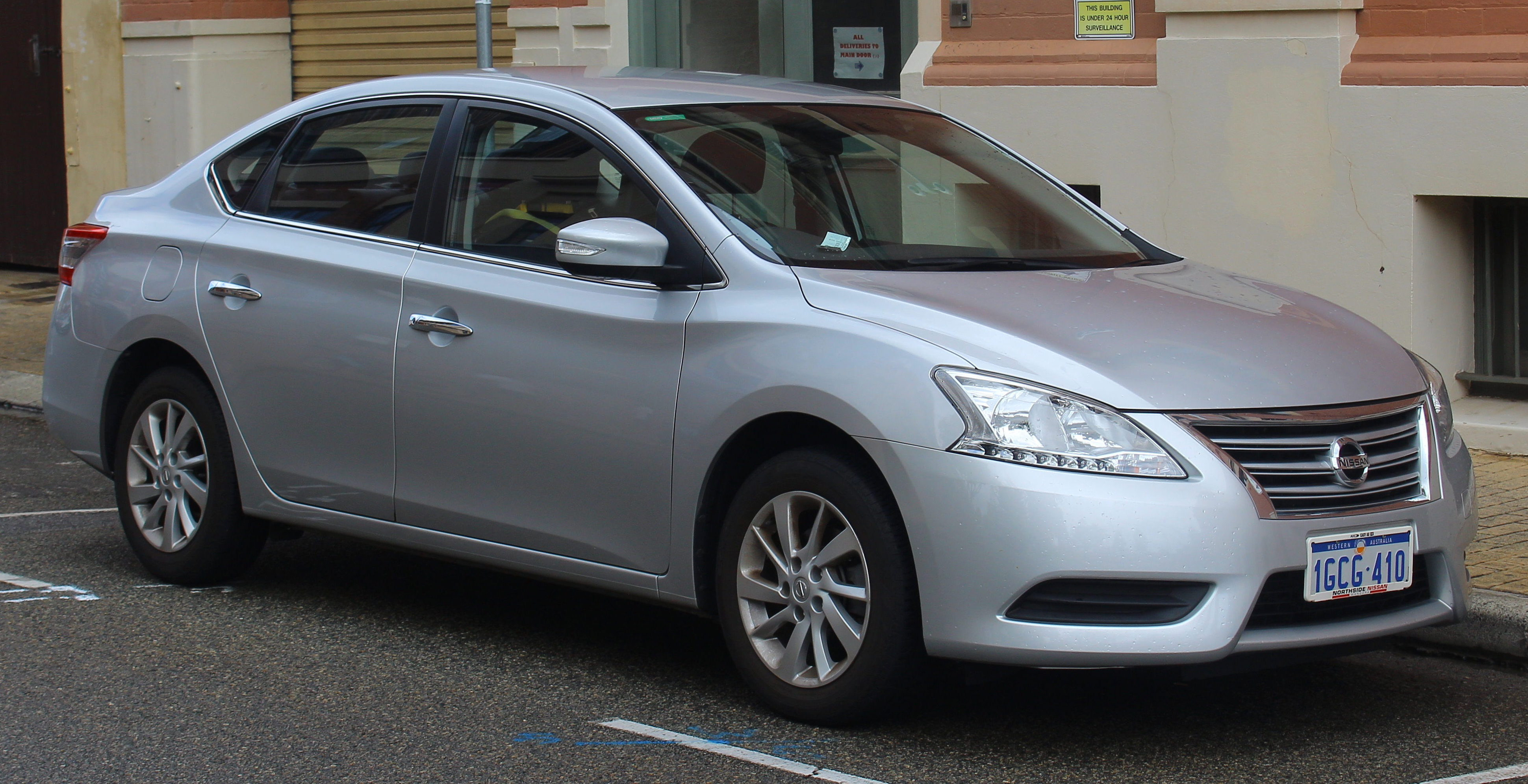 2016 Nissan Pulsar (B17 Series 2) ST sedan. Photographed in Fremantle, Western Australia, Australia.